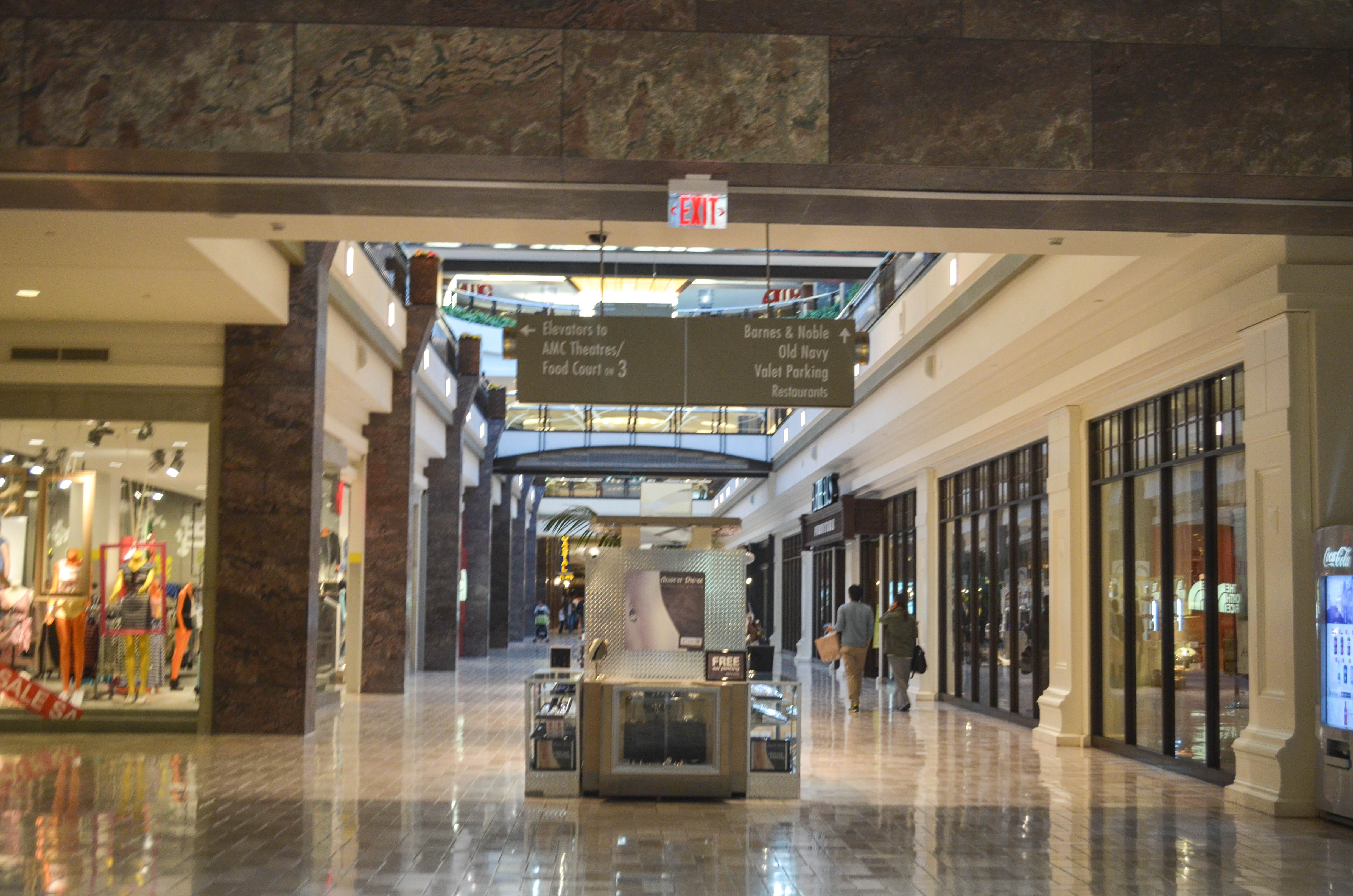 Tysons Corner Center Mall